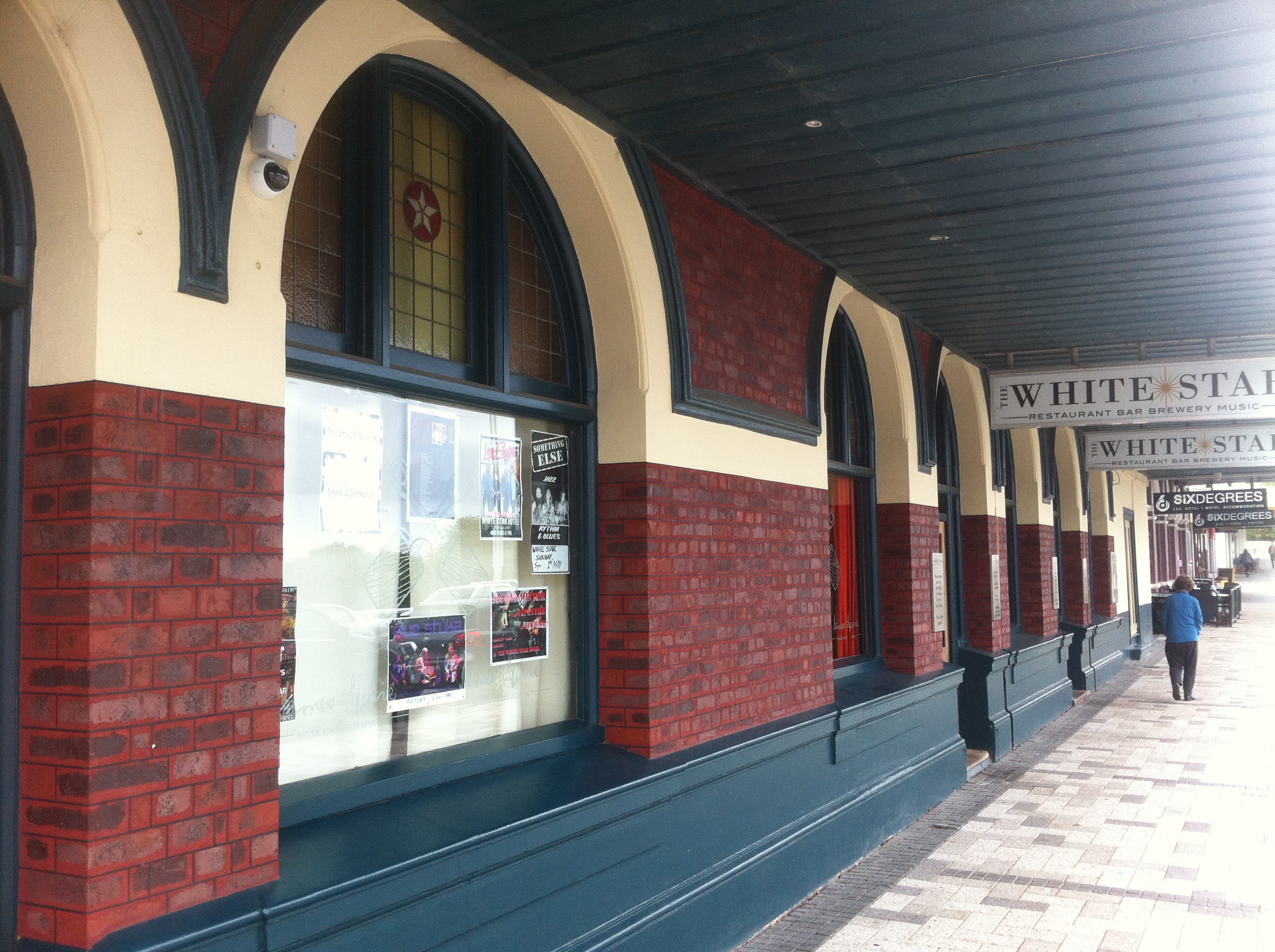 Brickwork at front of hotel